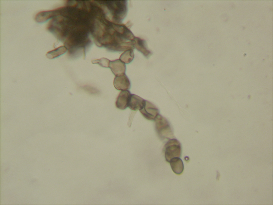 Environmental isolate of Monilia magnified 160X. Identified using Barnett, H. L. & Hunter, B. B. (1998) Illustrated Genera of Imperfect Fungi. APS Press: St. Paul, MN; pp. 72–3 ISBN 0-89054-192-2.